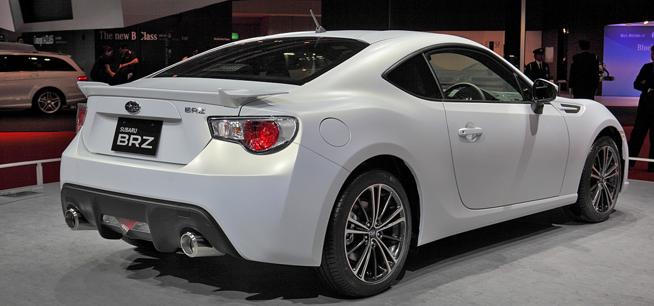 Subaru BRZ (Tokyo Motor Show 2011)